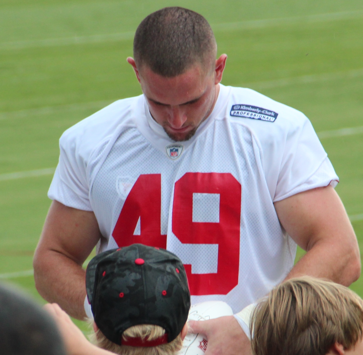 Paul Worrilow in 2013